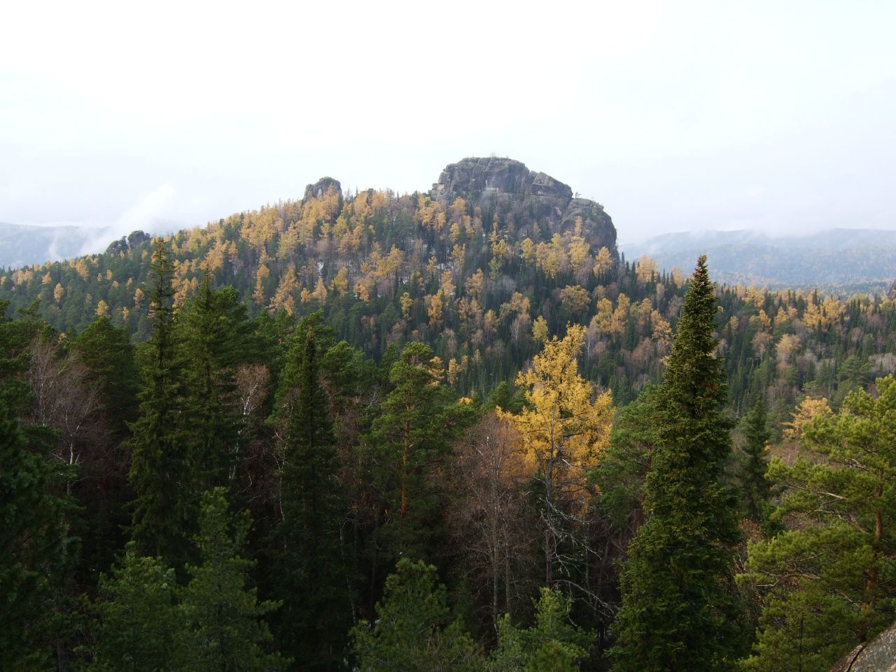 Stolby Nature Reserve, Krasnoyarsk, Russia